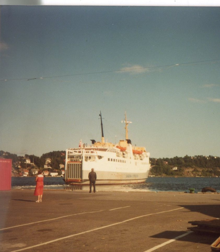 MS Christian IV from Fred Olsen Lines leaving the port of Arendal